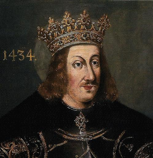 King Vladislaus III (fragment, retouched), Toruń Old Town Hall